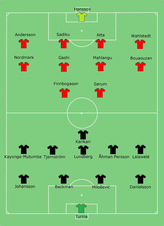 Line-ups for the 2012 Supercupen between Helsingborgs IF and AIK at Olympia, Helsingborg, on 24 March 2012.